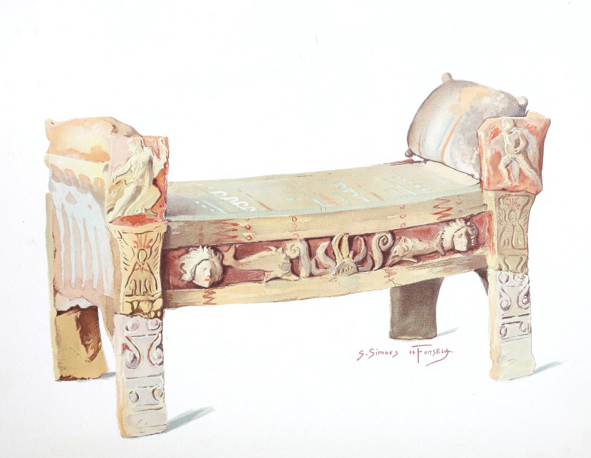 Frontispiecce and Plate III: from Couches and beds of the Greeks Etruscans and Romans by Caroline L Ransom. Chicago : University of Chicago Press, 1905. Described in the text as follows (public domain) : Plate III and Frontispiece. — Terra-cotta in the Louvre. "Found in a tomb at Tanagra. Length, 28 cm.; height to level of seat, 12 cm.; to top of pillow, 17.2 cm.; width of pillars, 2.5 cm. Pictured and briefly described, Girard, Fig. 4385, p. 1017. Described or referred to here, pp. 28, 46, 47, 68, 74, 75, and 89."